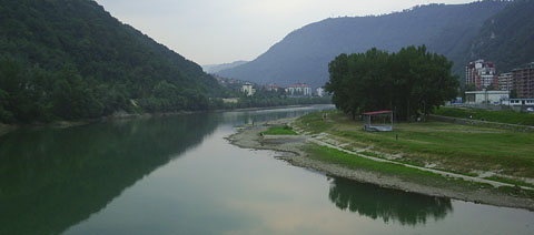 Drina river at Zvornik, Republika Srpska.